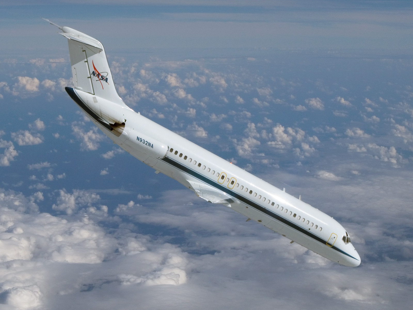 A NASA DC-9 reduced-gravity aircraft is featured in this image during a parabolic flight photographed from a T-38 aircraft. The aircraft, based at Ellington Field near Johnson Space Center, flies a series of parabola patterns over the Gulf of Mexico to afford opportunities for astronauts and investigators to experience brief periods of weightlessness. FAA Registry